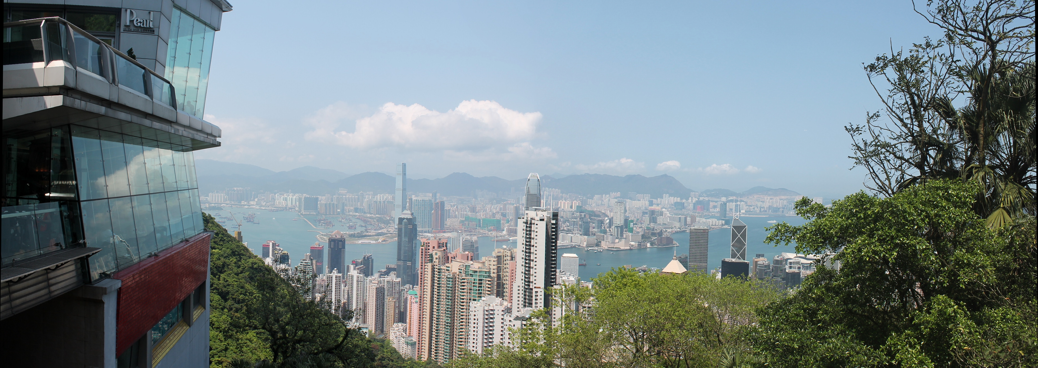 View of Kowloon and Hong Kong from Victoria Peak